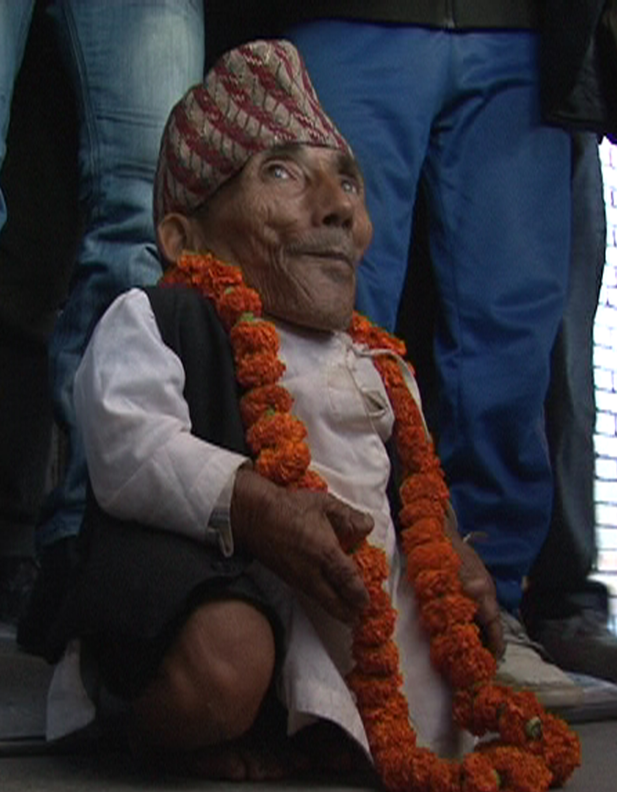 Shortest living Man in the world 2012